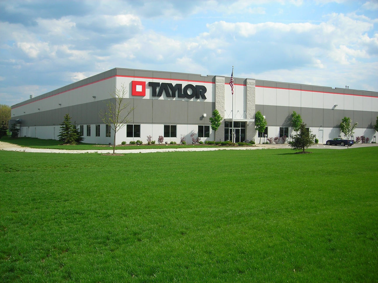 Copyright free factory picture of The Taylor Companies Bedford Ohio factory